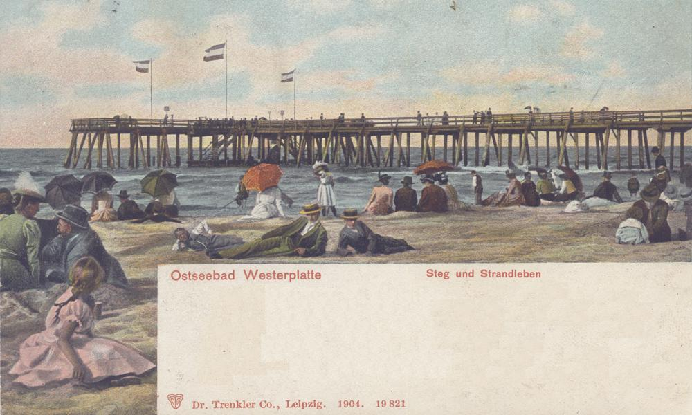 Gdańsk Westerplatte, Poland.